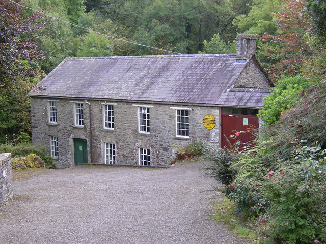 Rock Woollen Mill, Capel Dewi, Landyssul A water mill – the wheel is on the left side of the building, the water being conveyed in a channel from a weir at the road bridge. The AA village sign has presumably wandered here from somewhere nearby, but I haven't been able to find the place (Cilrhiwiau) on a map, although 13 miles from New Quay is a good clue. Phil Champion has alerted me to: Which explains the sign as follows: "The original village sign can be seen on the wall of the mill. removed in the second world war to confuse possible invaders to this quiet Welsh village it was never put back up but remained for donkeys years on the wall of their other mill Broneinon. Although known locally as Capel Dewi by local people after the little church at the top of the slope, the village was actually called Cilrhiwiau which translates as narrow valley. It has been known as Capel Dewi ever since. Not a lot of people know that!!"